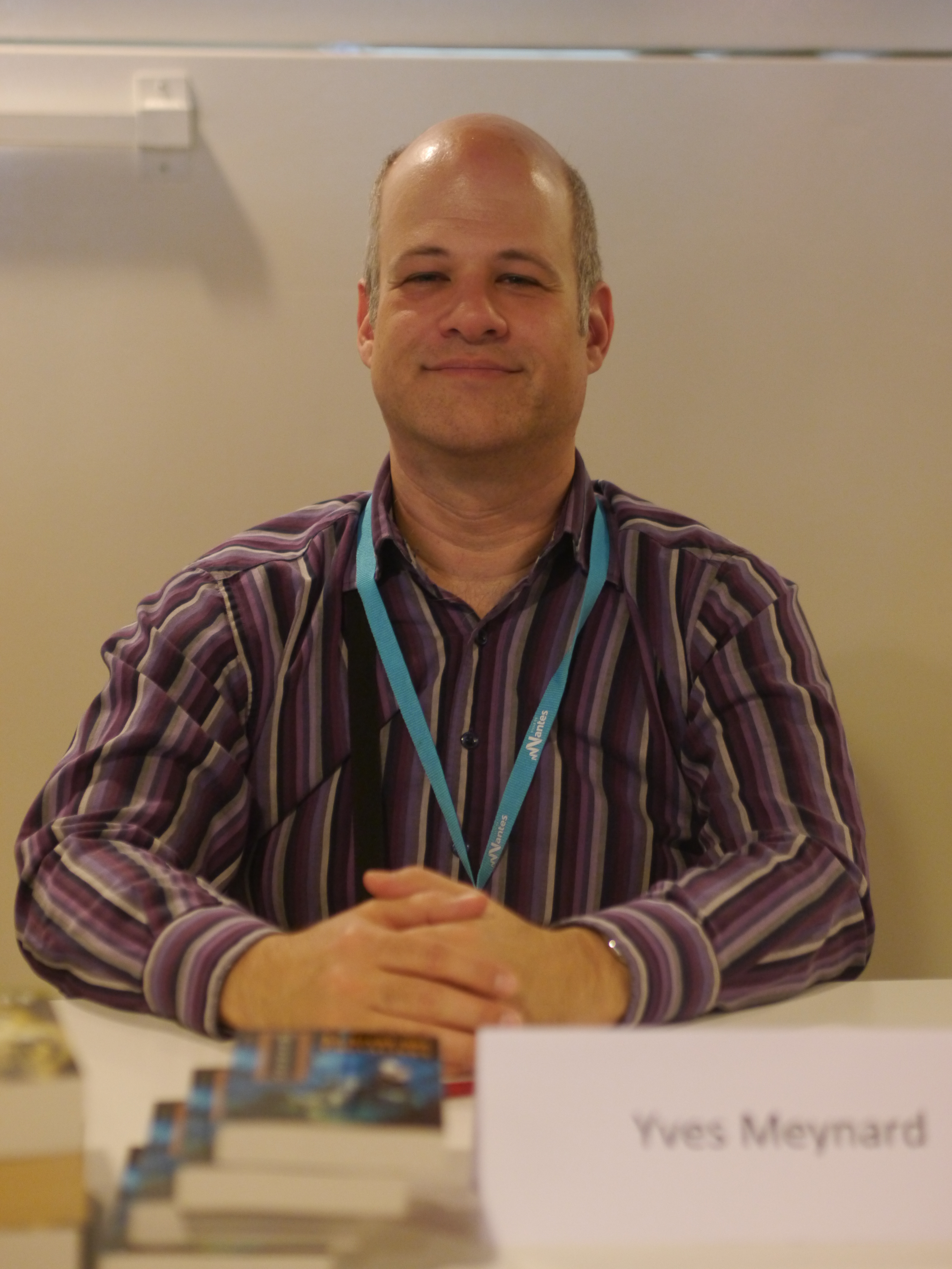 photograph taken at the 2014 edition of the "Utopiales" in Nantes.